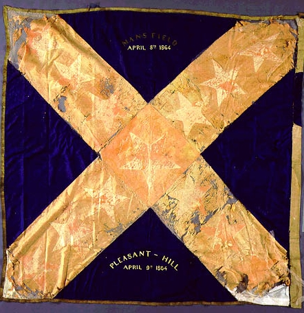 Walker's Texas Division Battle Flag, Texas State Library and Archives